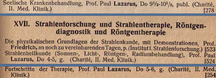 Scan of course catalogue Friedrich-Wilhelms-Universität Berlin 1925 and 1927